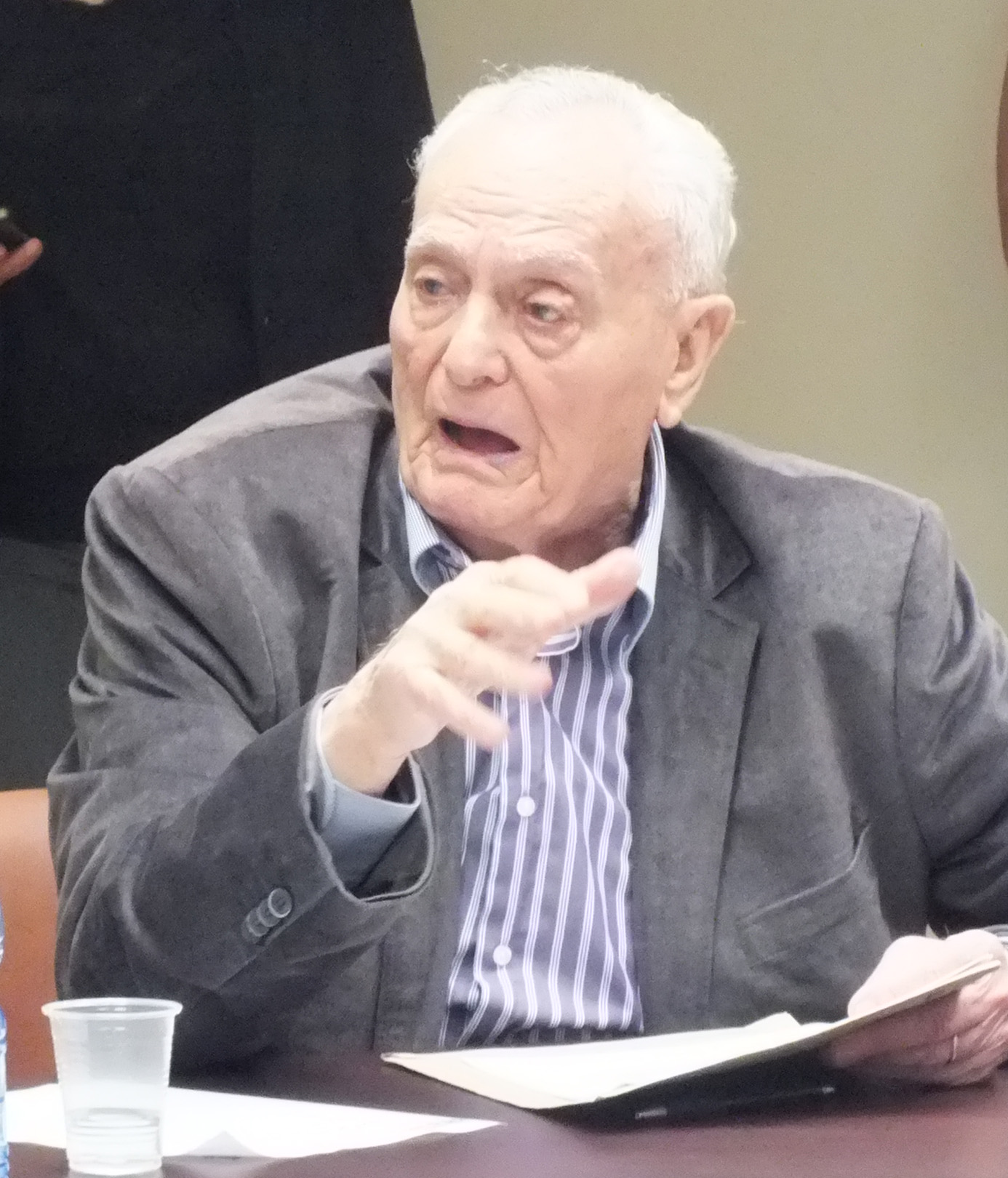 Chairman of Israel’s Pensioner Lobby Gideon Ben-Yisrael.